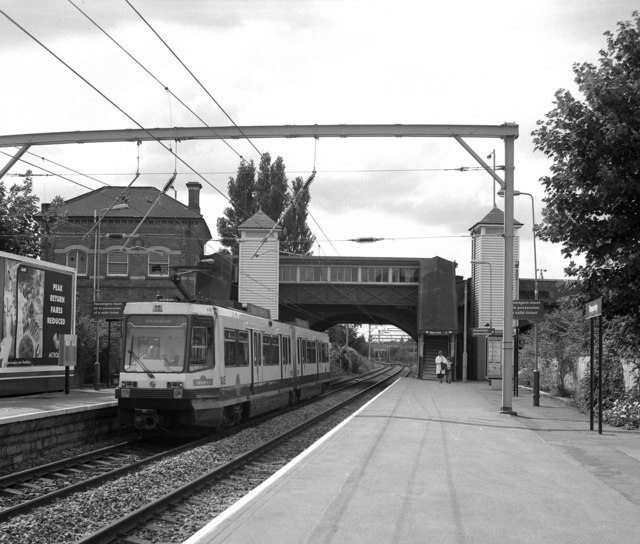 Timperley station All Metrolink stations were made fully accessible to disabled people. The neat appearance of the lifts can be seen to advantage here.